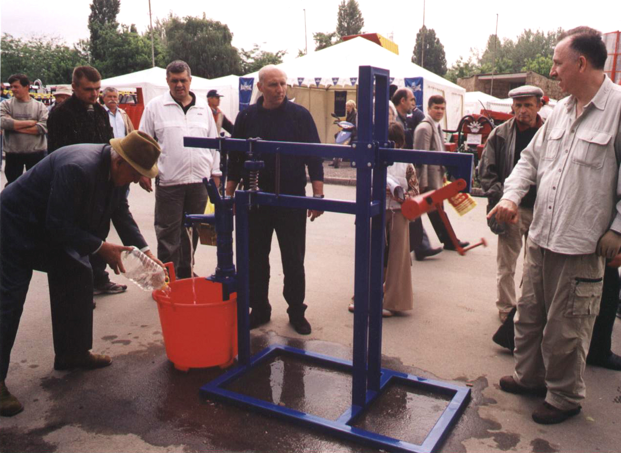 The public presentation of Veljko Milkovic's Hand Water Pump with a Pendulum. Location: Novi Sad Fair, Serbia, 2003.